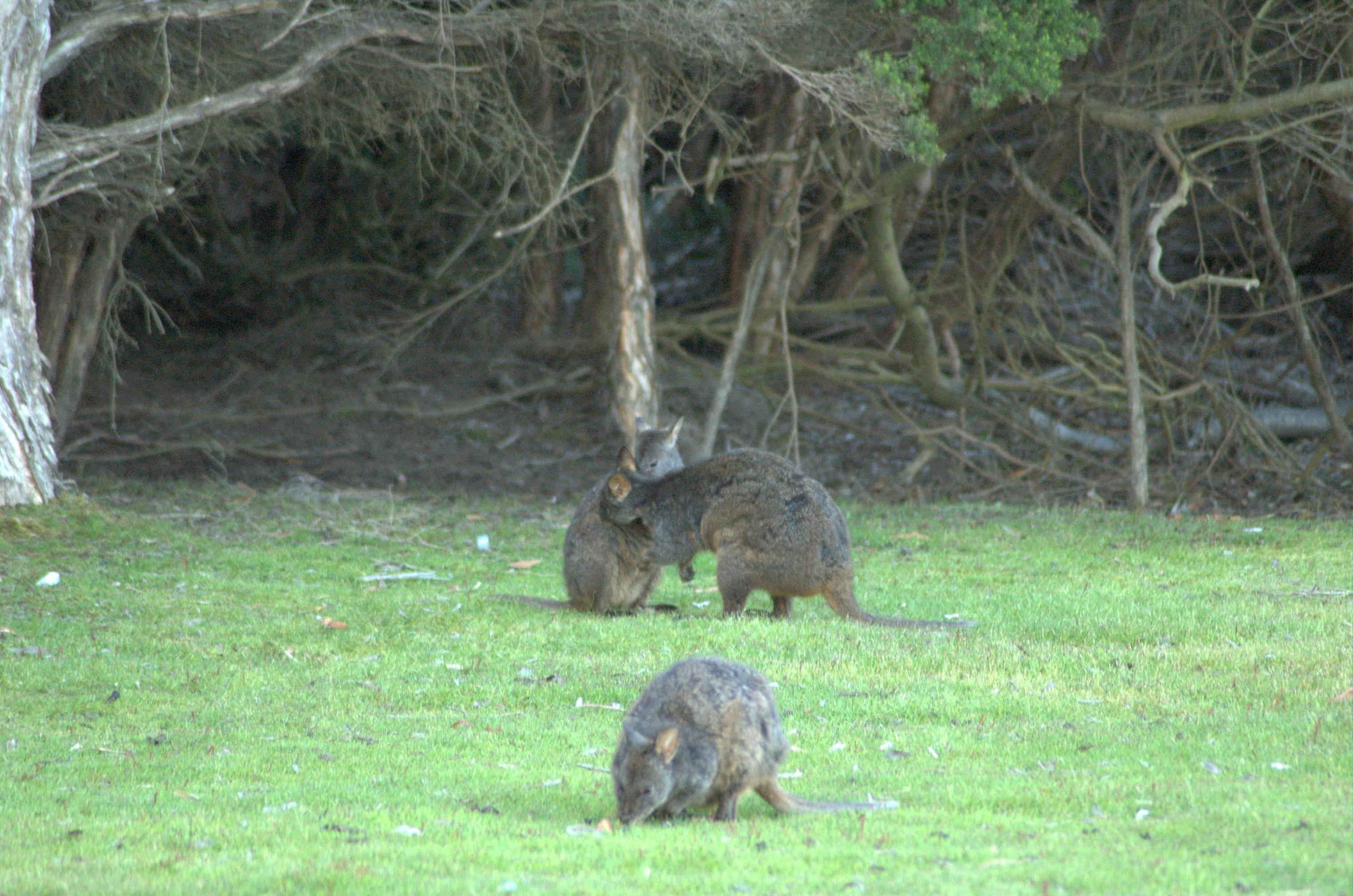 Pademelons at dusk in Narawntapu National Park, in Tasmania.